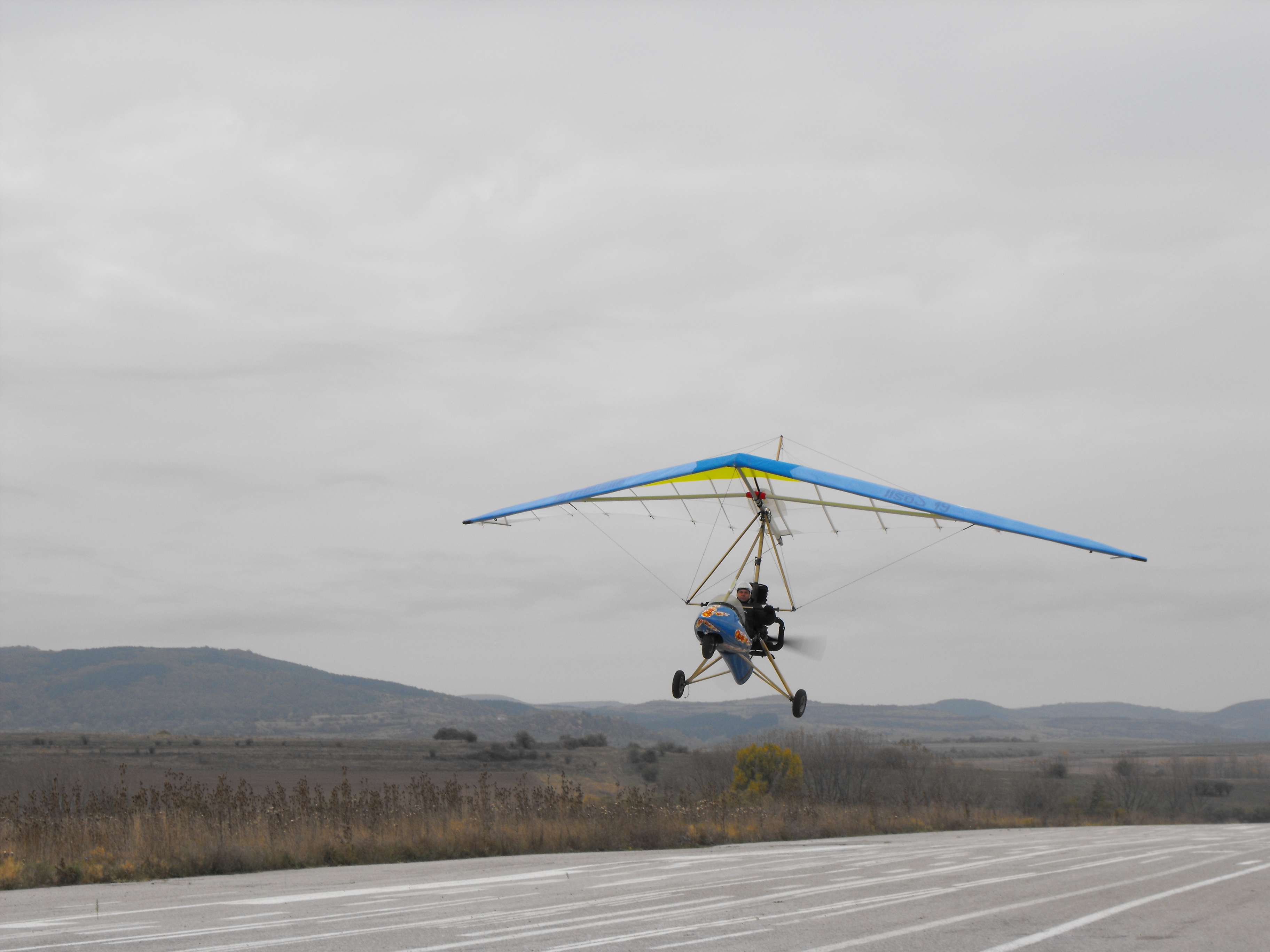 Powered deltaplane